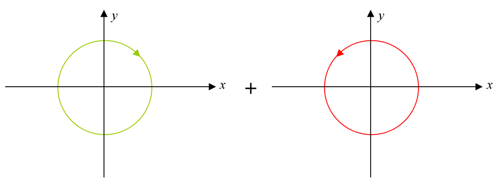 Scheme of circular polarizated waves sum